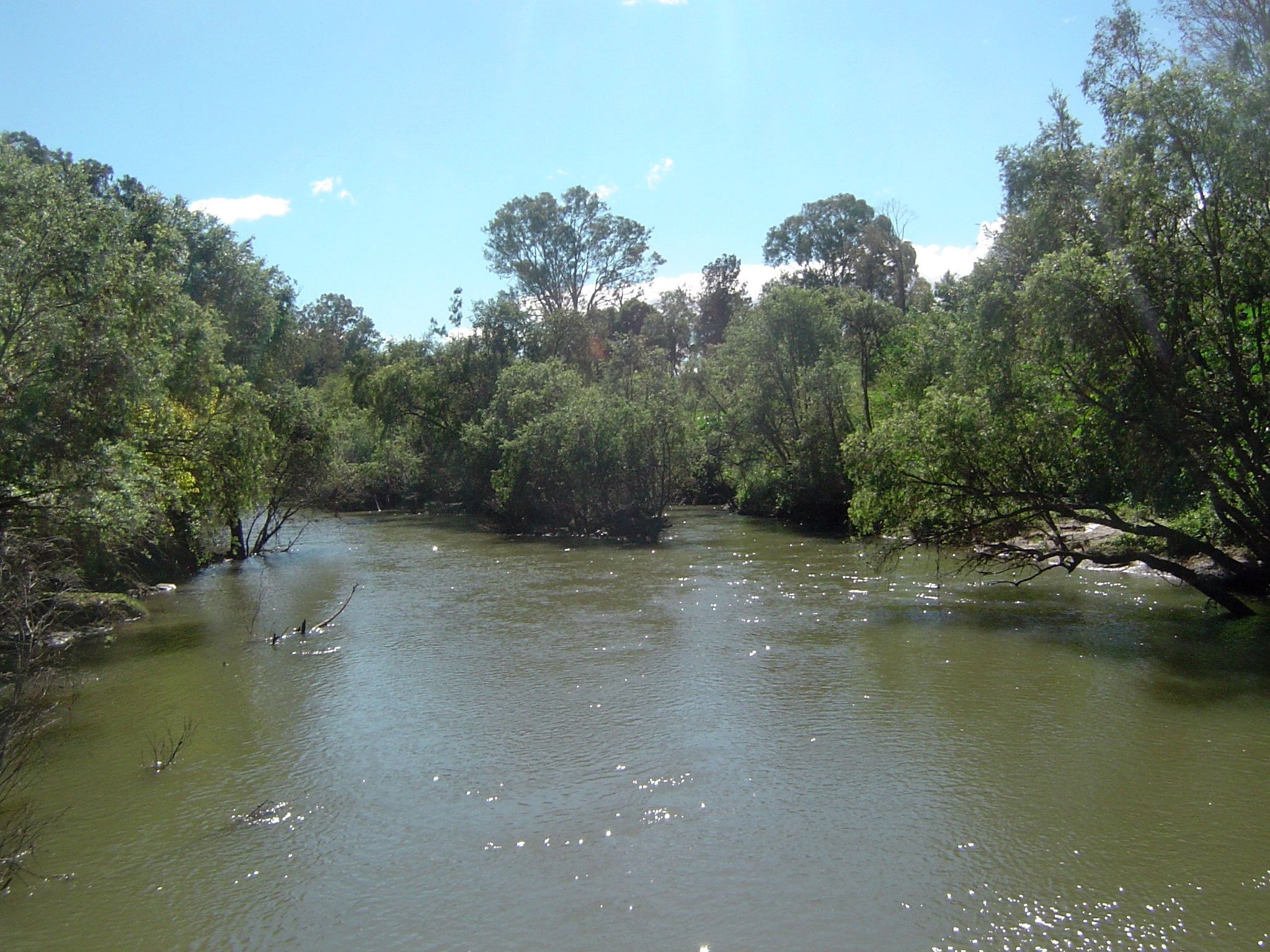 Photo of the Logan River, looking downstream from old bridge at Jimboomba Lions Park, Jimboomba, South East Queensland, Australia.